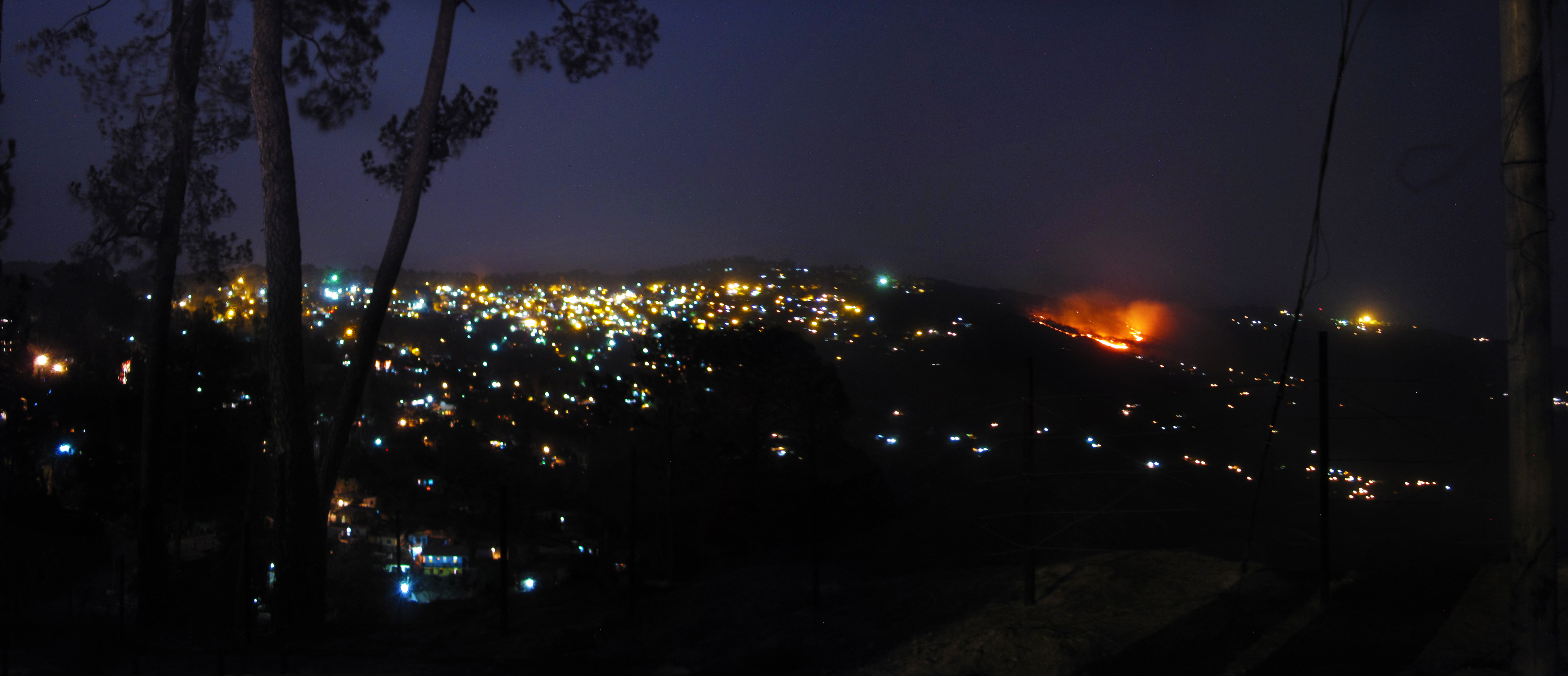 Ranikhet town at night,view from Rai Estate